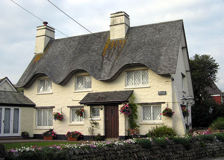 A roof tiled in imitation of thatch. Seen at Croyde, north Devon, England